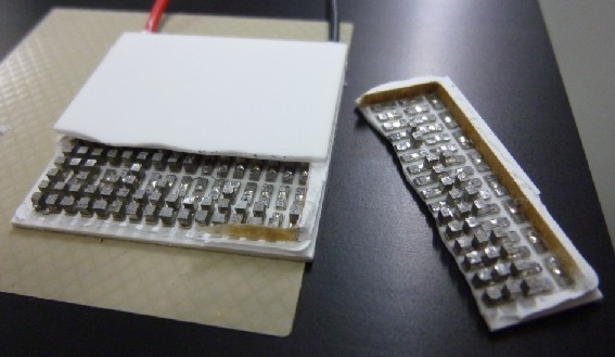 peltier element (30 x 30 x 3.5 mm), broken open